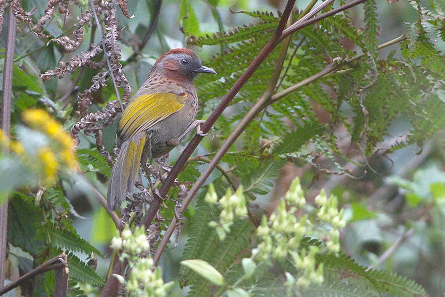 The image of Assam Laughingthrush had been captured during the birdwatching tour of GoingWild in Khonoma, Nagaland, India on 23.12.2016.